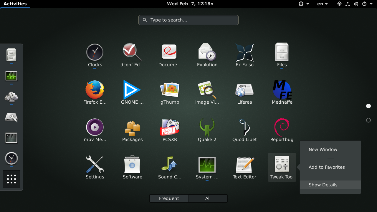 GNOME Shell - Applications menu (v3.22) -- background color was selected from default provided colors in "settings"